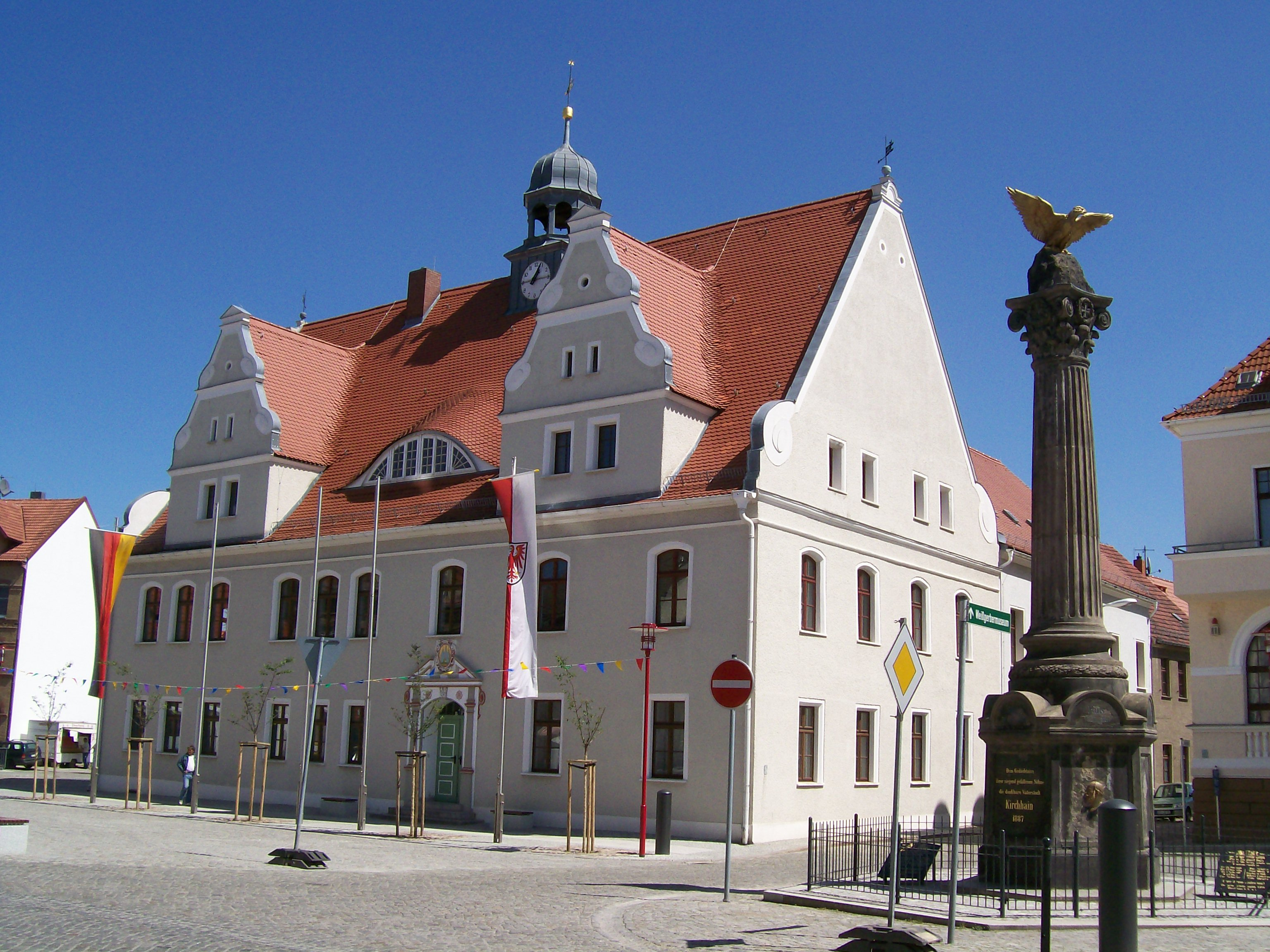 Germany_Brandenburg Country_Lausitz_Kirchhain_Town Hall and First World War Memorial_100_1524